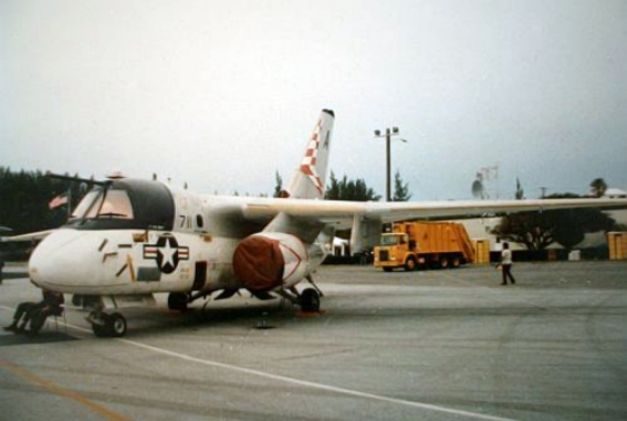 A U.S. Navy Lockheed S-3A Viking at the Naval Air Station Bermuda. This S-3 was assigned to anti-submarine squadron VS-22 Checkmates, Carrier Air Wing 3 (CVW-3).